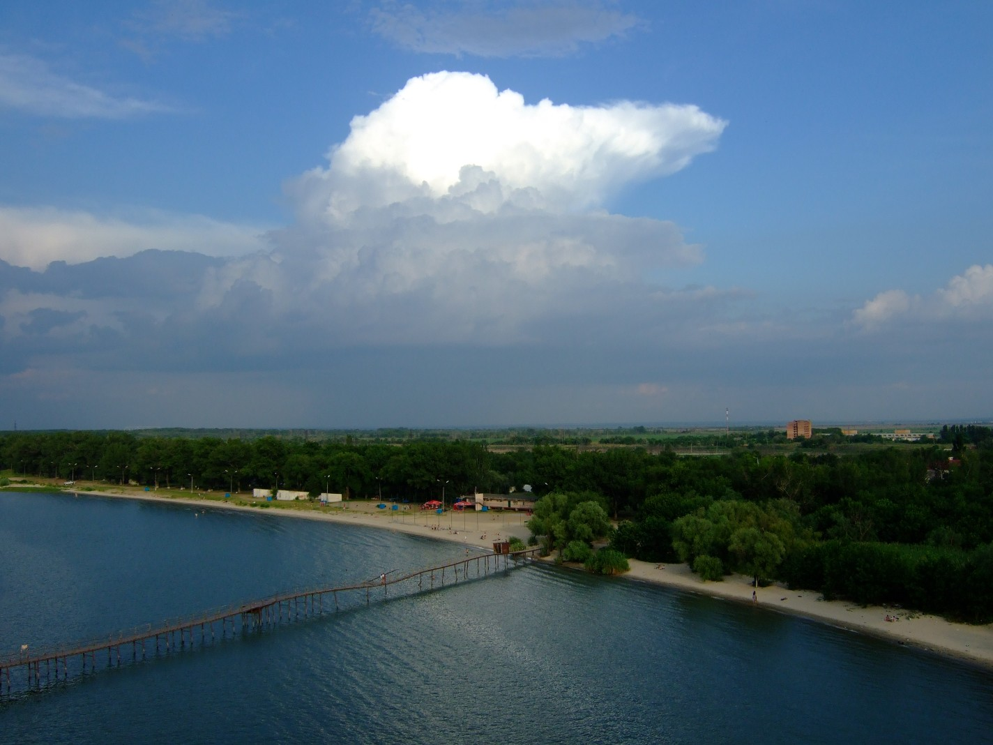 Rostov-on-Don, the left riverside